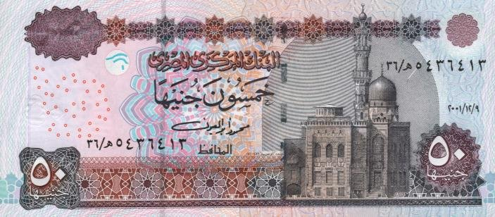 50 pound Egypt